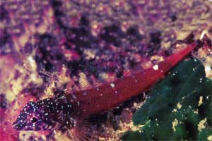 Tripterygion melanurus Area Marina Protetta Capo Gallo, Palermo, Sicily